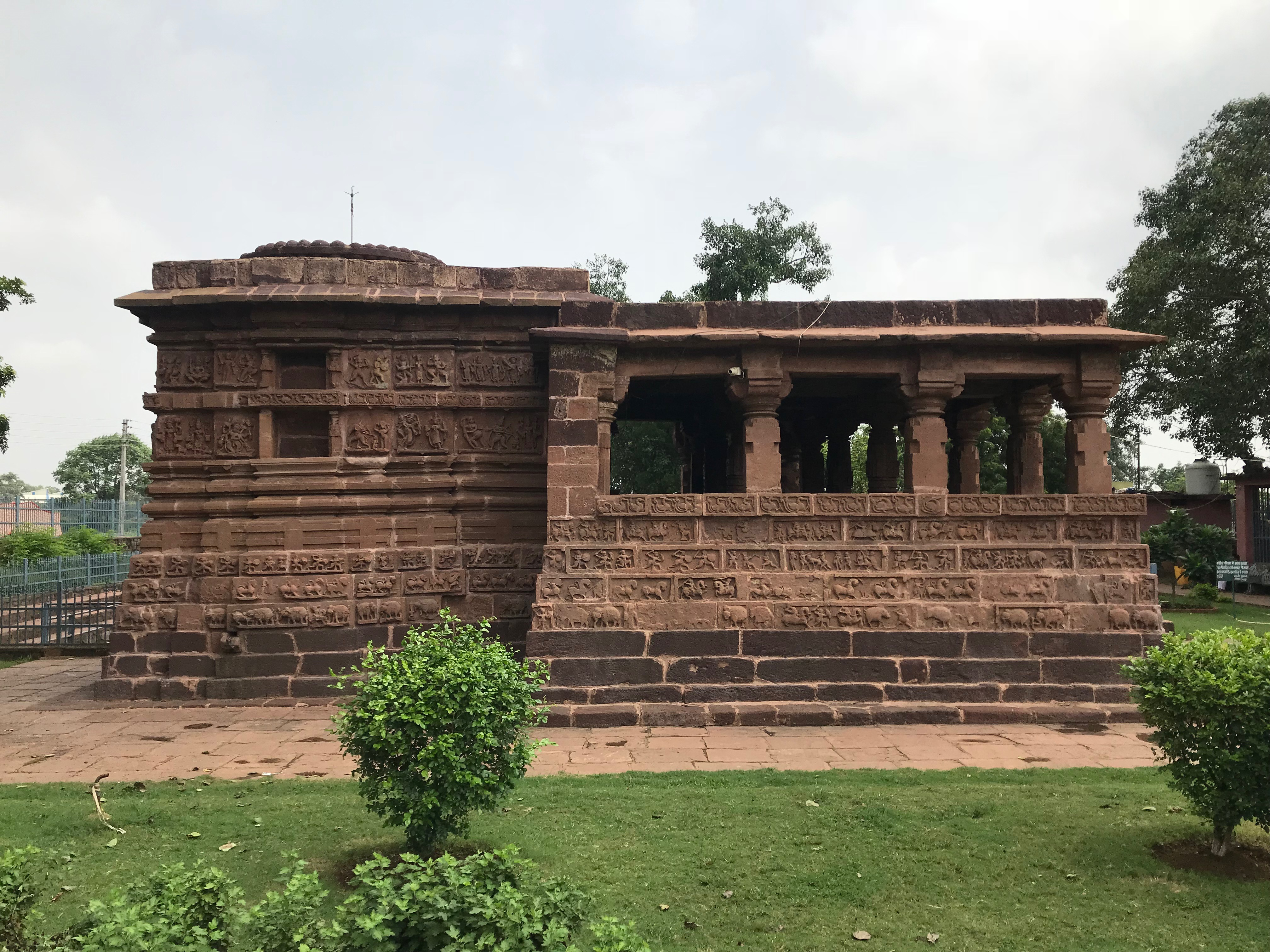 Mahadev Temple with missing Shikhara at Deobaloda built by the Kalchuris in 13th Century